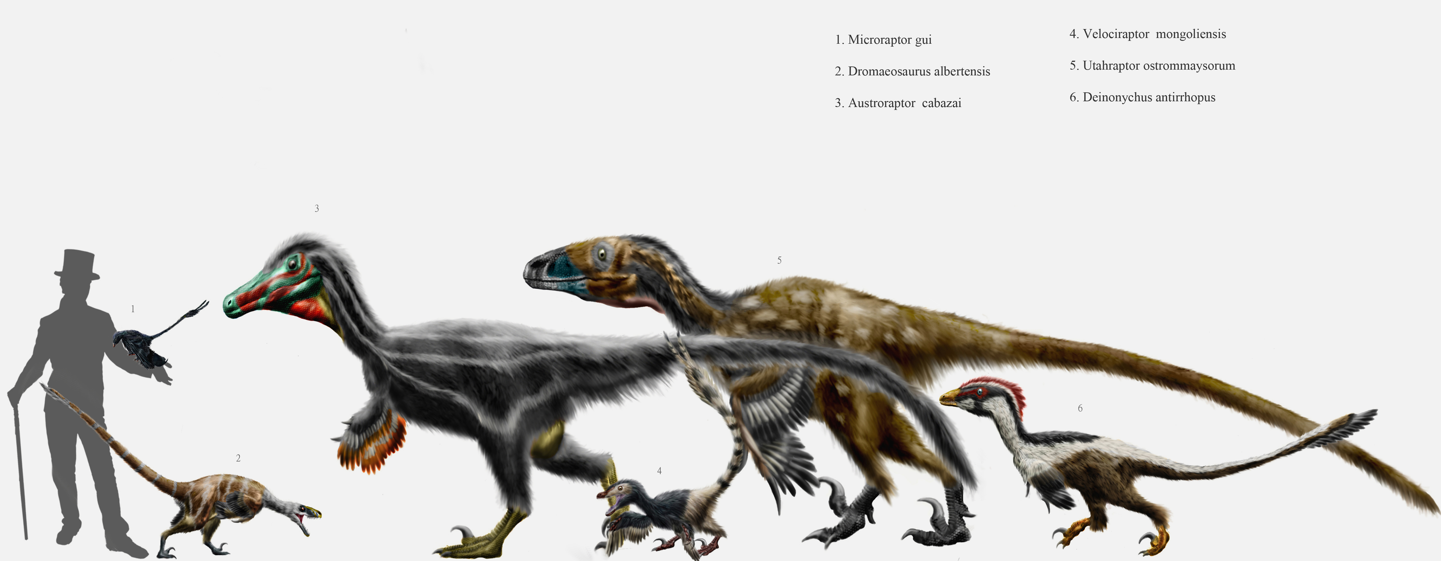 A scale chart of dromaeosaurids including Microraptor, Dromaeosaurus, Austroraptor, Velociraptor, Utahraptor, and Deinonychus (left to right).